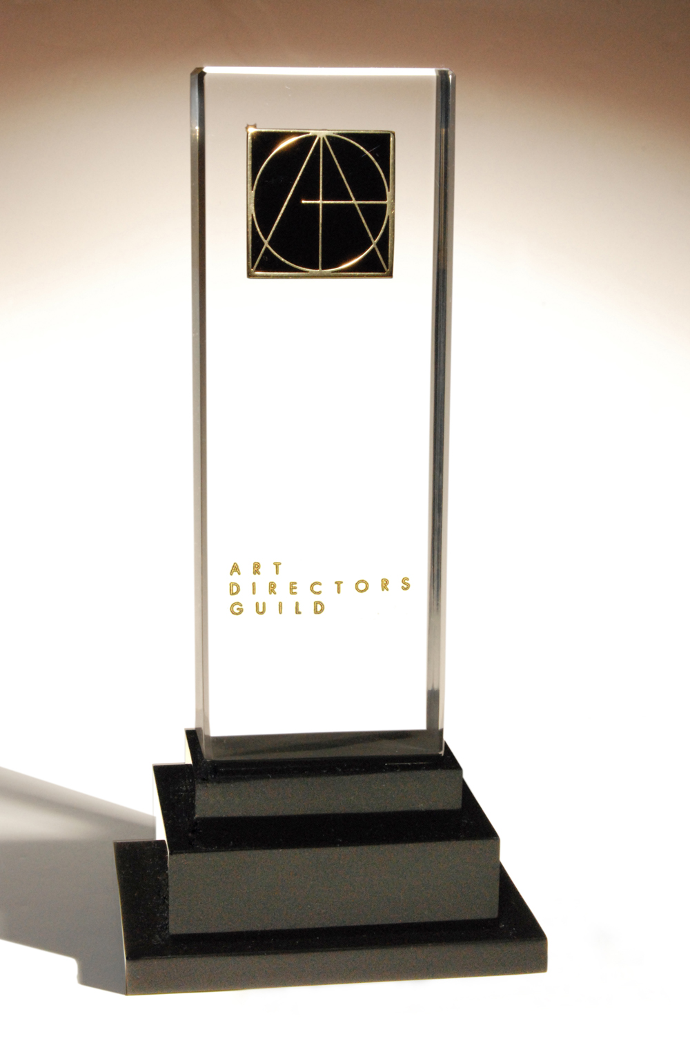 Photo of the ADG Excellence in Production Design Award given yearly by the Art Directors Guild.